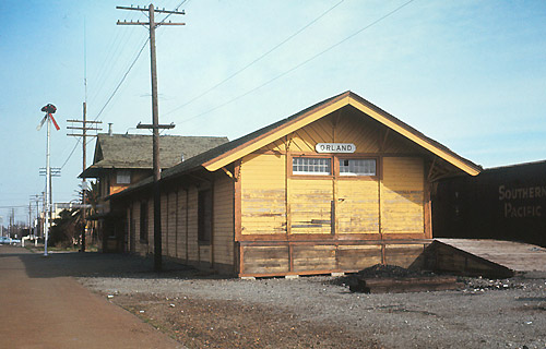 Orland station in February 1969